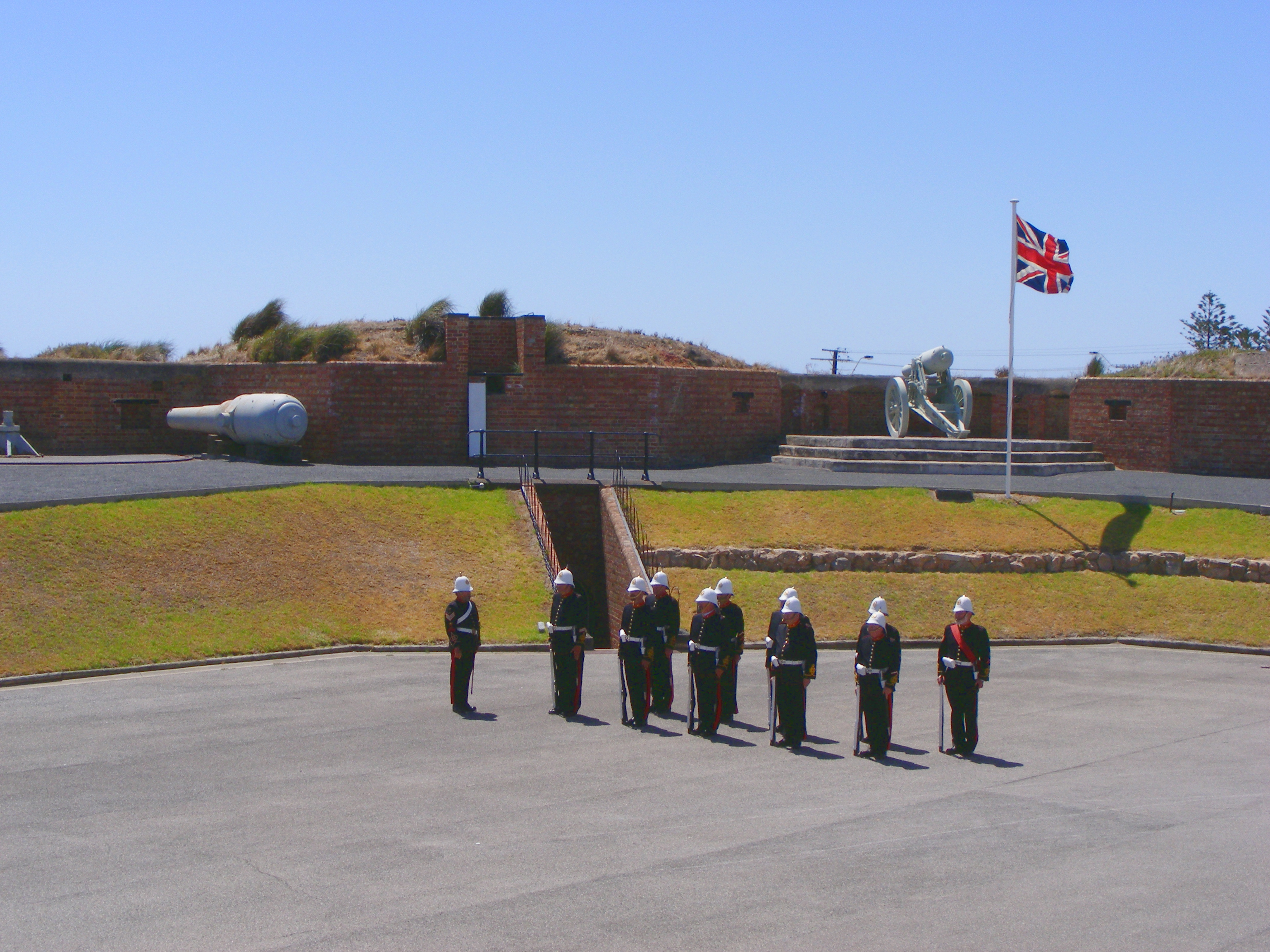 volunteer recreationists at Ft Glanville, Adelaide, South Australia. They are about to do a fire-and-advance drill with live-blank rounds. 10" and a 64 pounder cannon in the background from left to right.